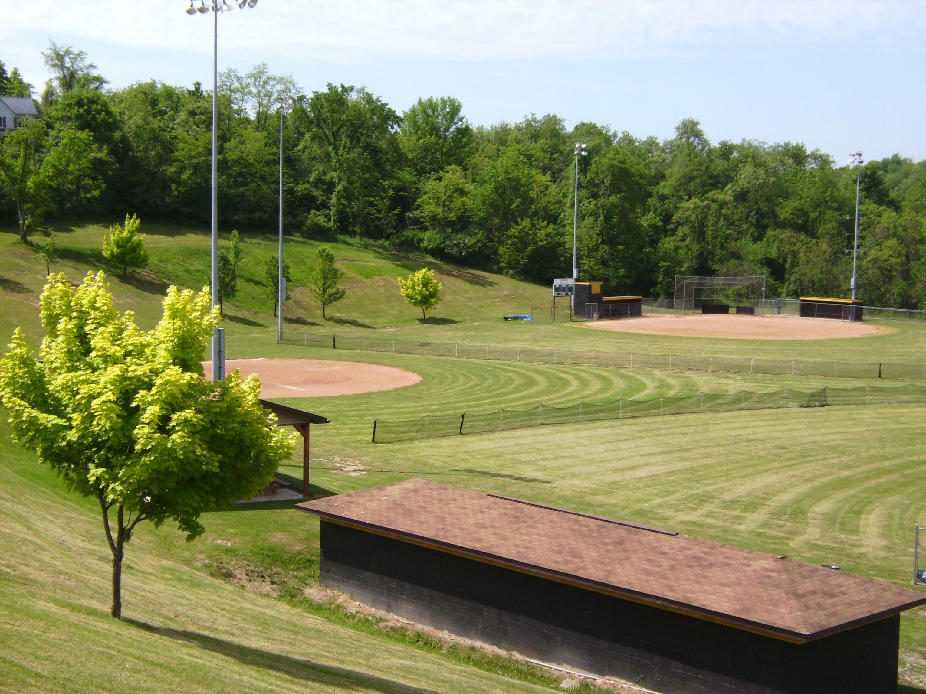 885 Baseball Field, Jefferson Hills, PA